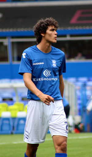 Will Packwood warming up against Antwerp.